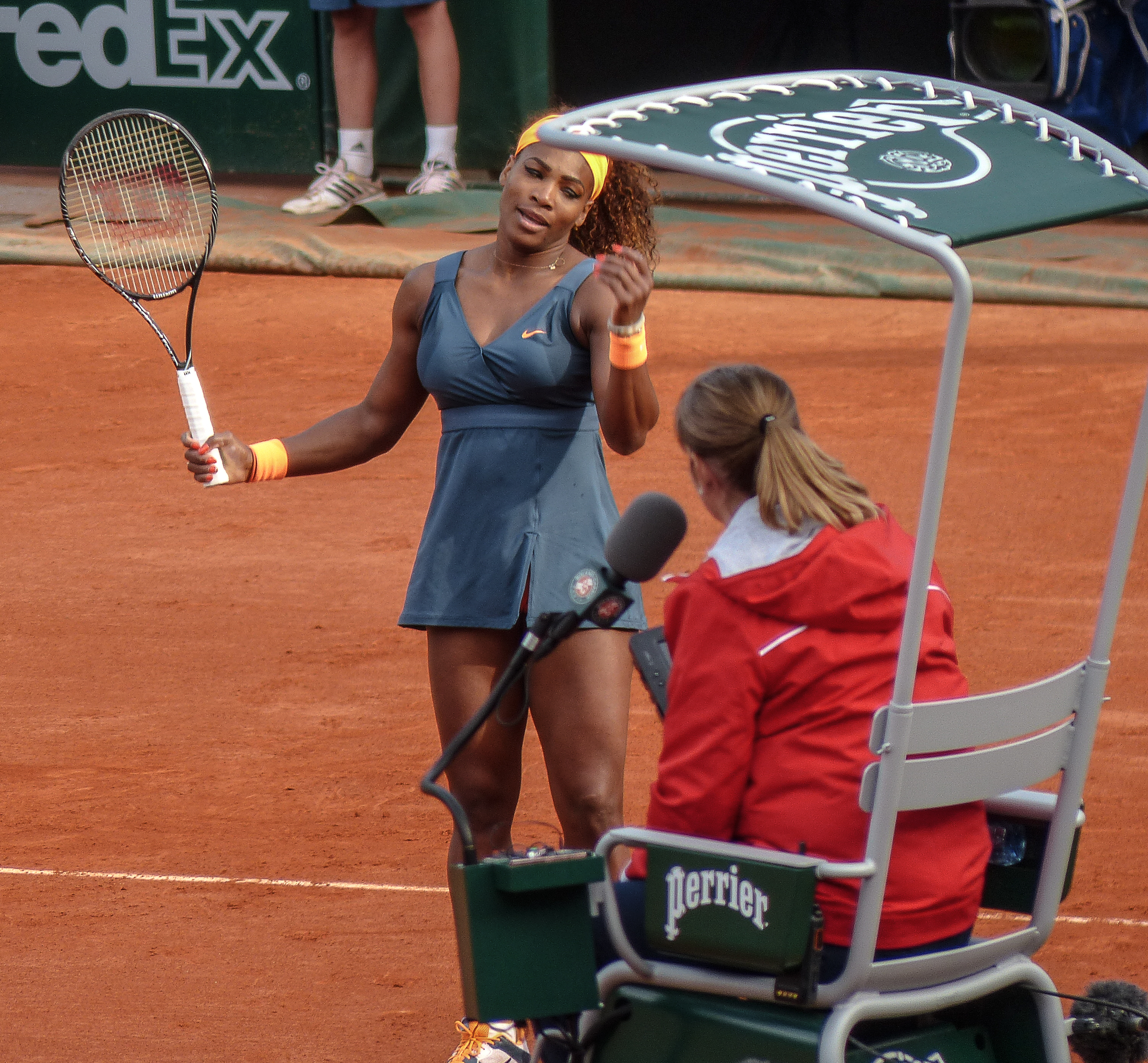 2ème tour Roland Garros 2013 : Serena Williams (USA) def. Caroline Garcia (FRA)